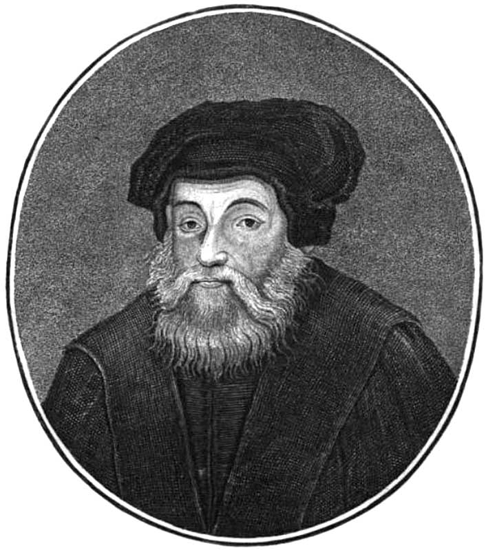 Andreas Winkler (1498-1575) German booksellers and Teacher